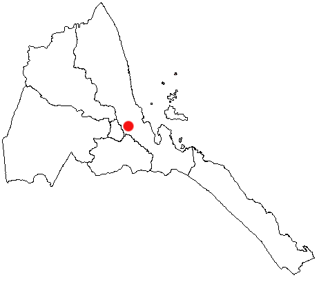 Ghinda, Eritrea Location Map; created with the GIMP. Made by Acntx.